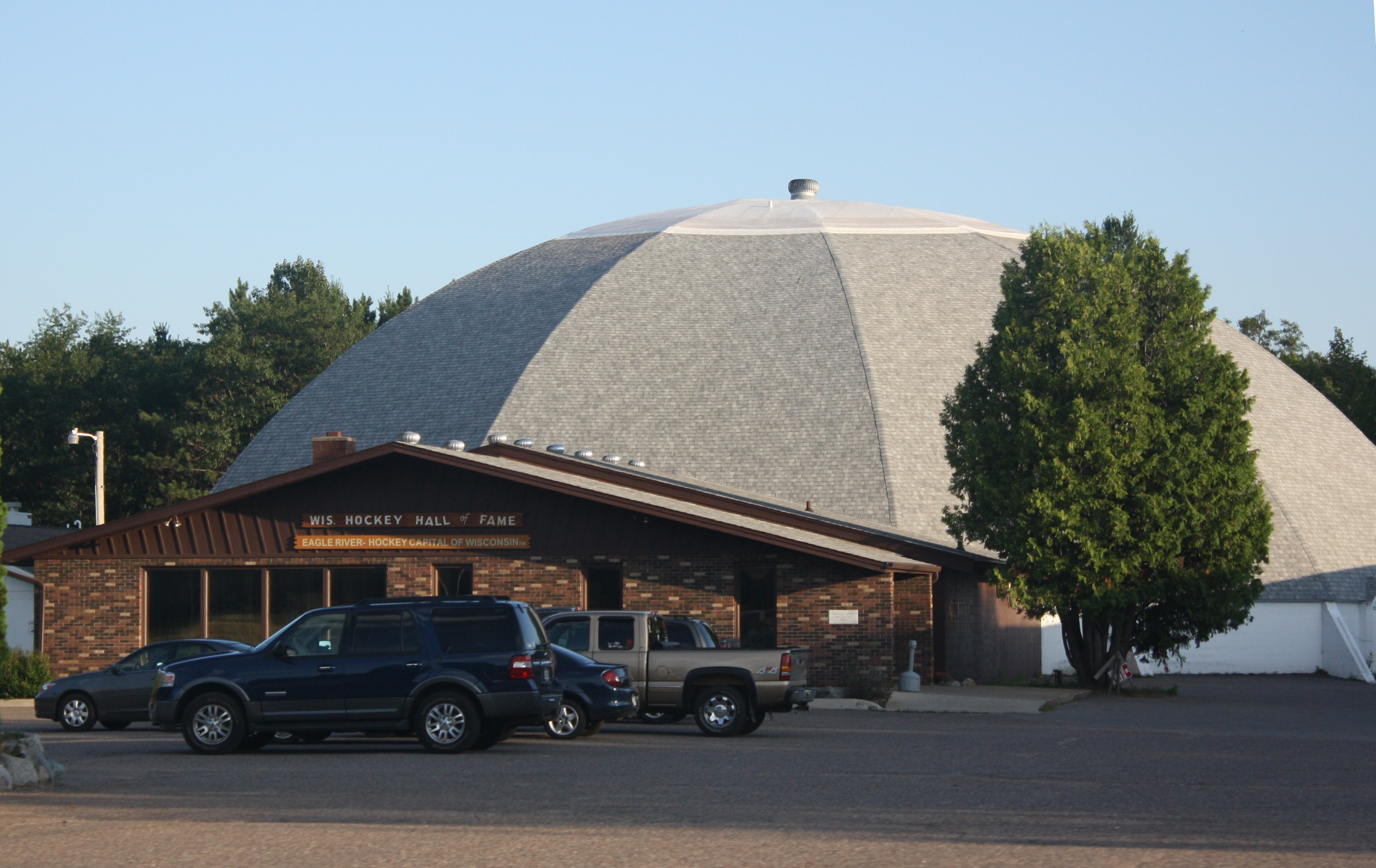 The Eagle River Stadium, home of the Wisconsin Hockey Hall of Fame. It is listed on the National Register of Historic Places.